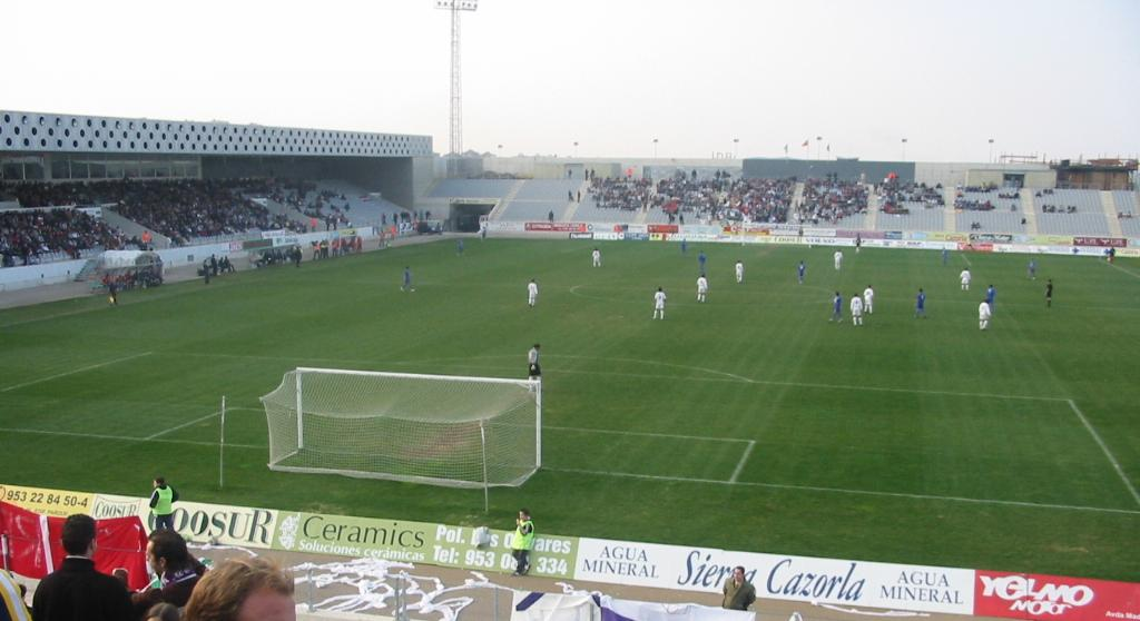 Nuevo la Victoria Stadium, Jaén (Spain). Picture taken by Luismi on 5th February 2006, during Real Jaén - CD Linares match.